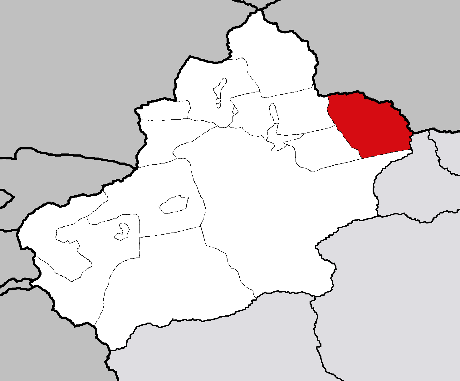 Maps of Xinjiang Uyghr Autonomous Region of China